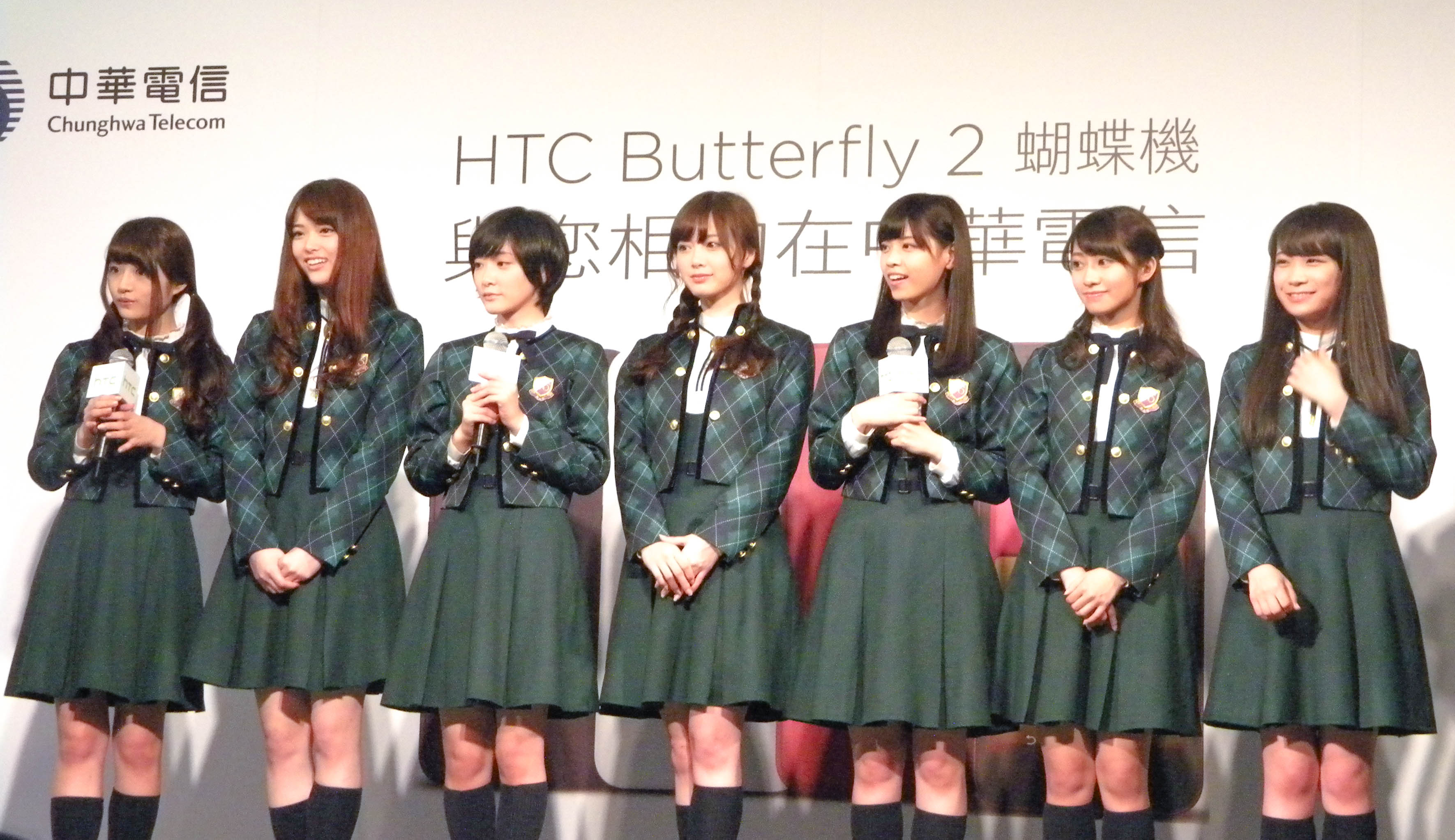 Members of Nogizaka46 on HTC and Chunghwa Telecom HTC Butterfly 2 joint marketing event at Taipei, Taiwan.